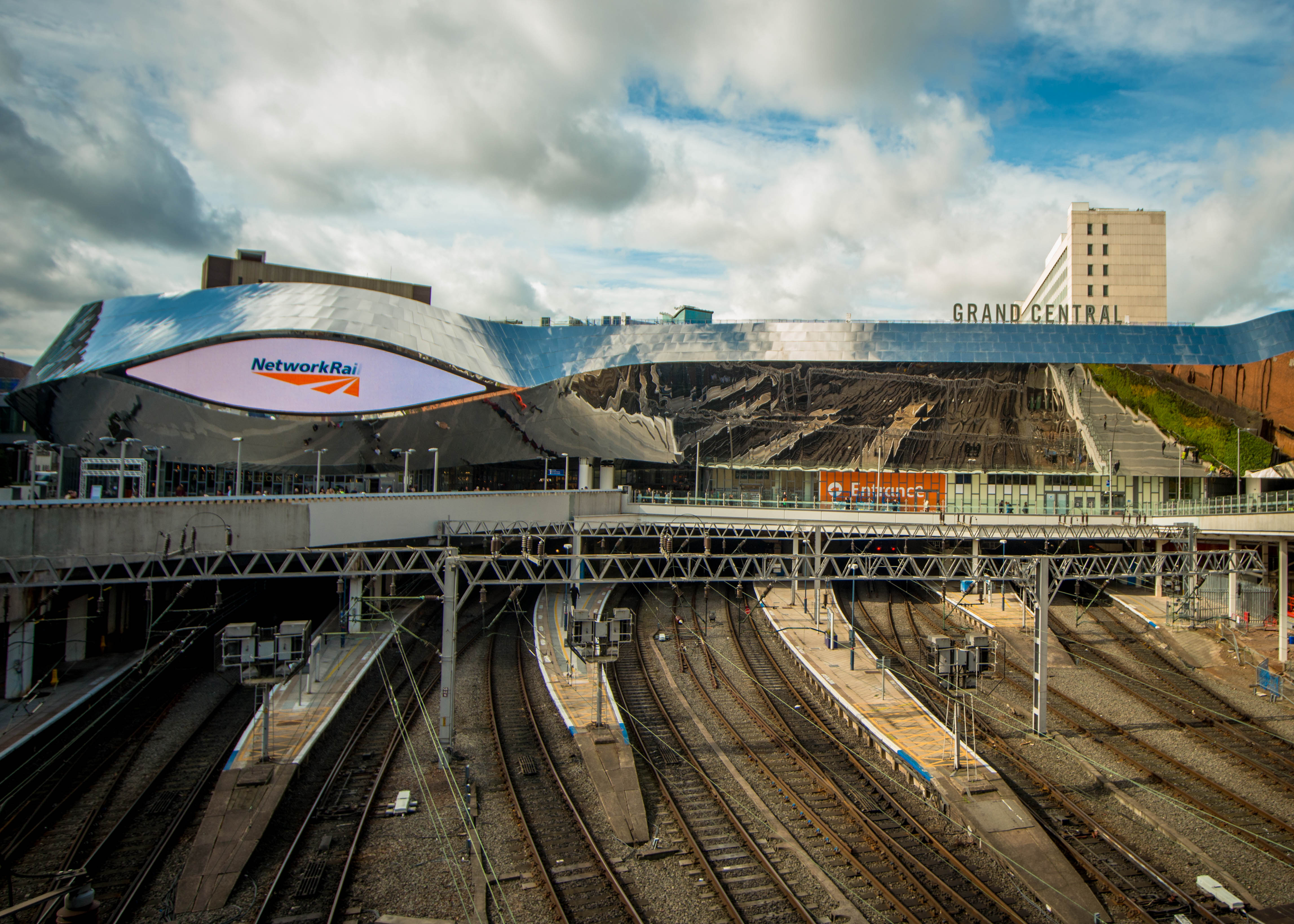 The re-developed New St Station in Birmingham days after opening.